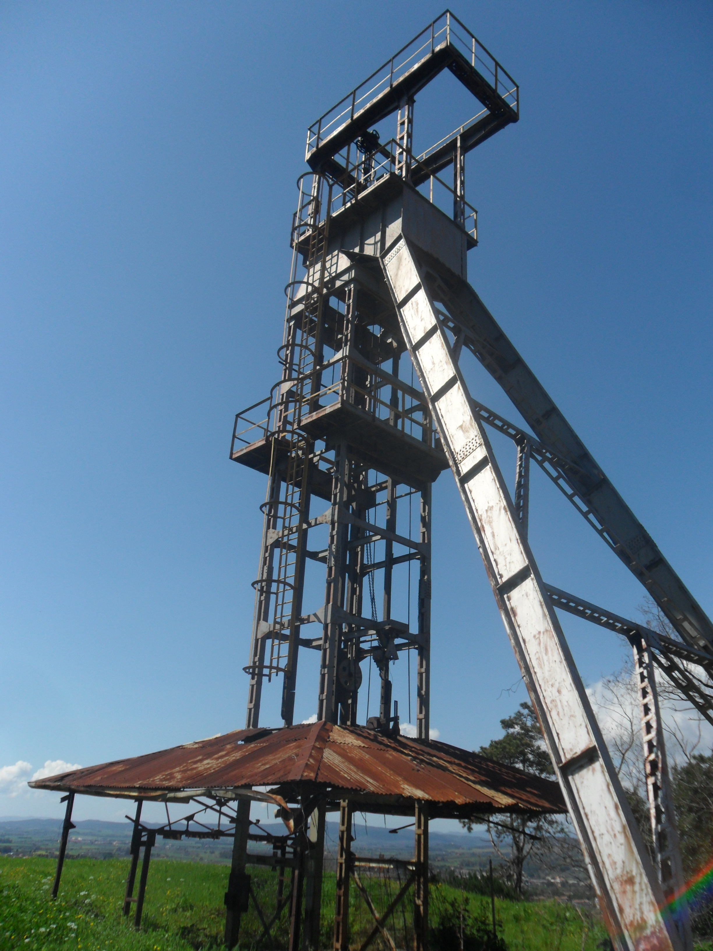 vista ravvicinata particolare miniera di rigoloccio